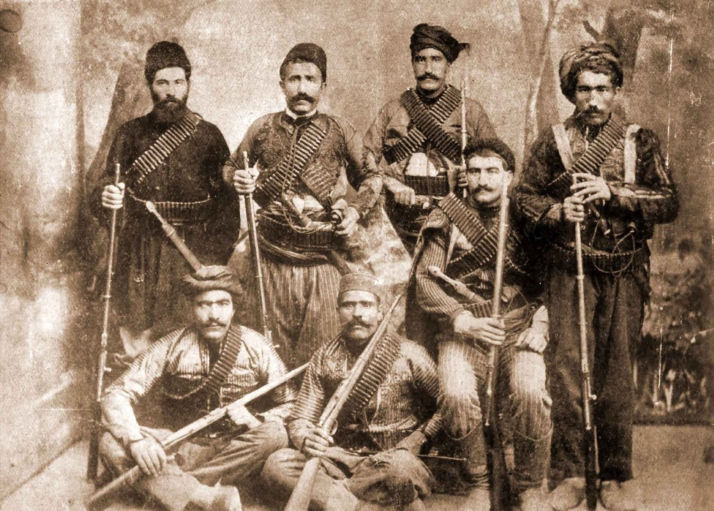 Armenian military forces